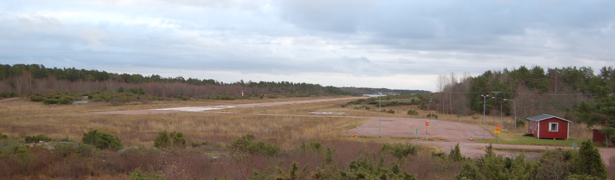 Overview of Kumlinge Airfield (EFKG) in Kumlinge, Finland